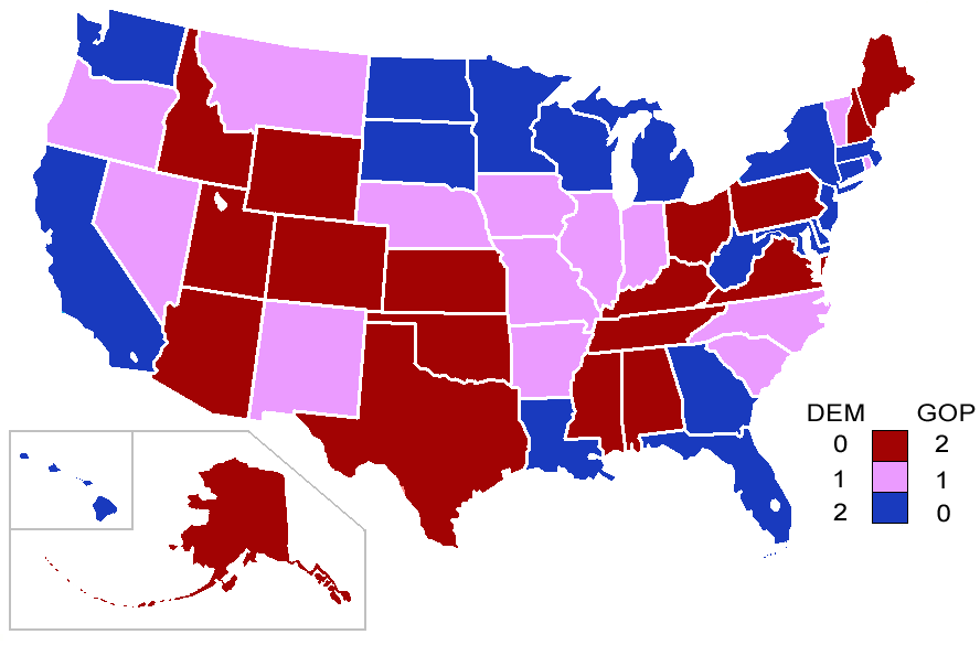 107th United States Congress' Senate composition by party.